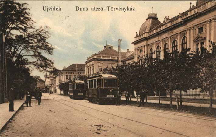 Building of the Museum of Vojvodina, Novi Sad, Serbia. It was built in 1900.